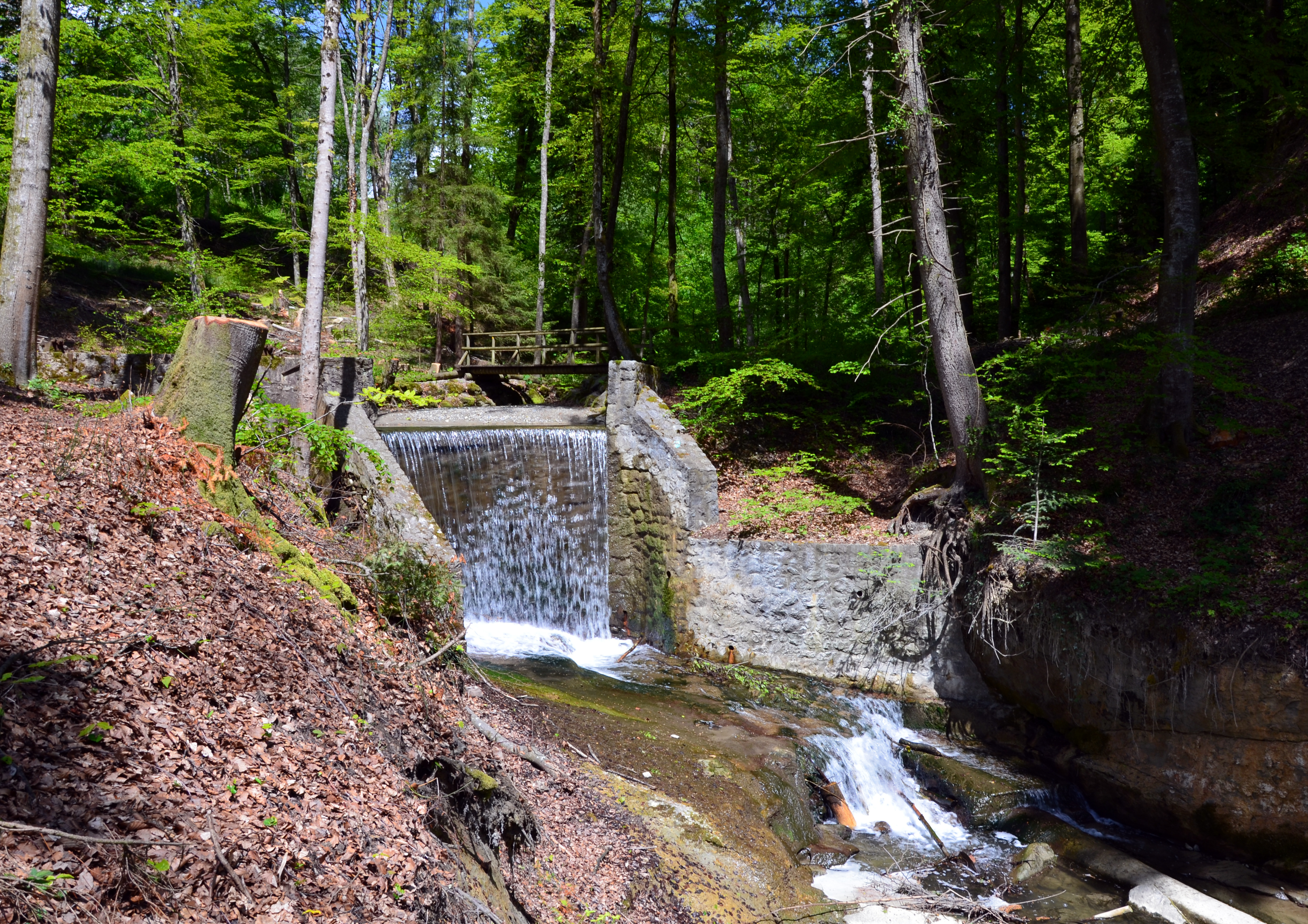 A waterfall of the Flon river, that straddle the border between the swiss municipalities of Lausanne and Le Mont-sur-Lausanne (where the picture was taken from)